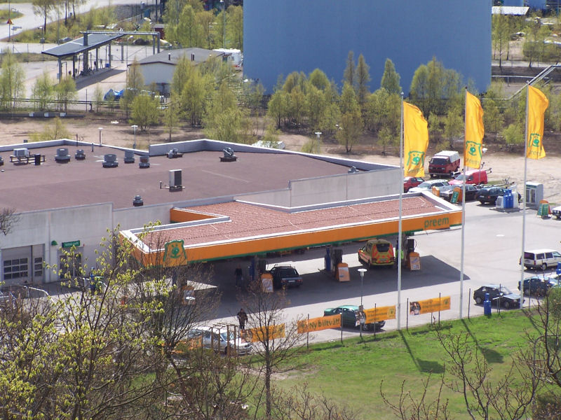 Preem gas station in Karlskrona, Sweden.